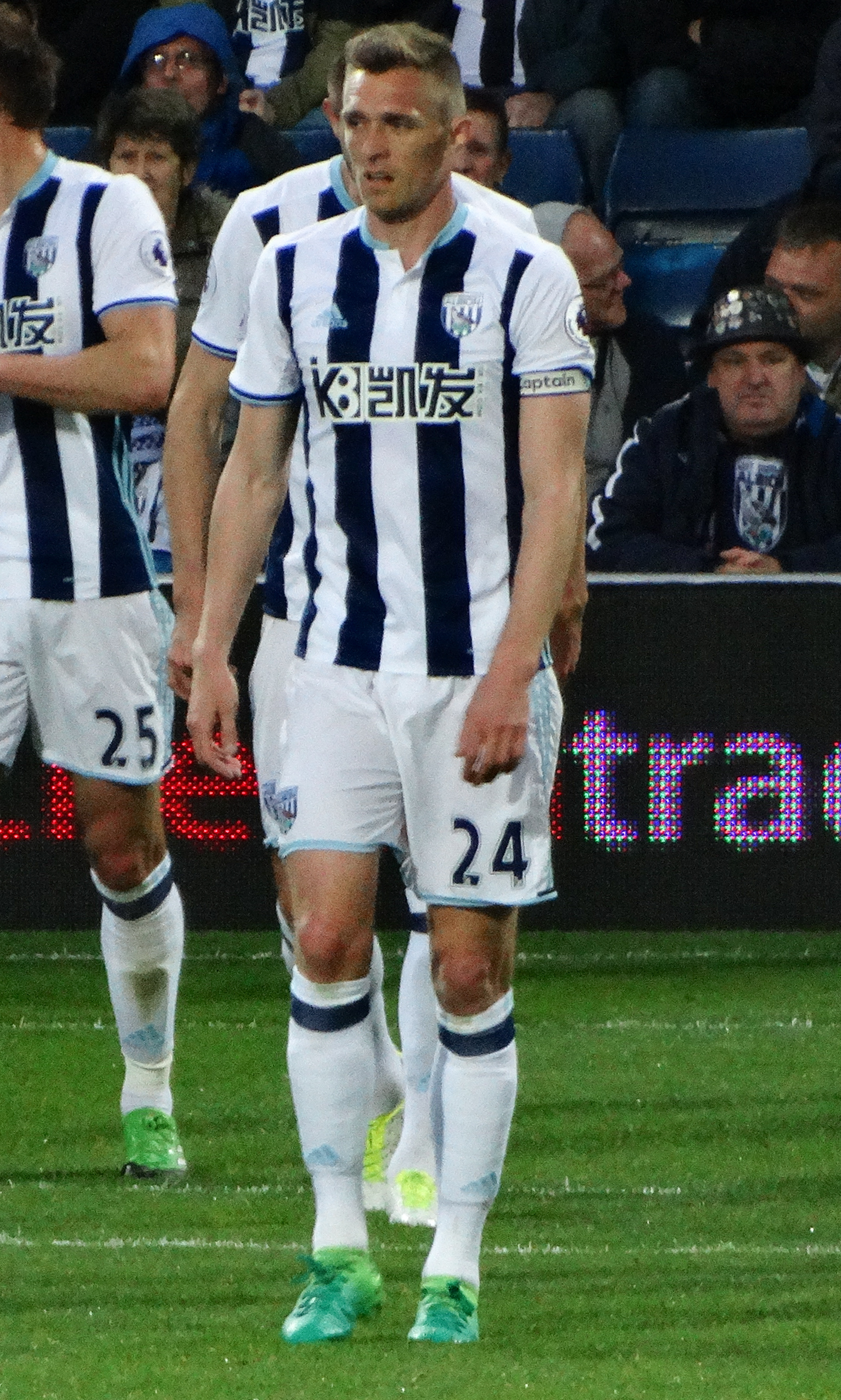 Darren Fletcher playing for WBA in 2017